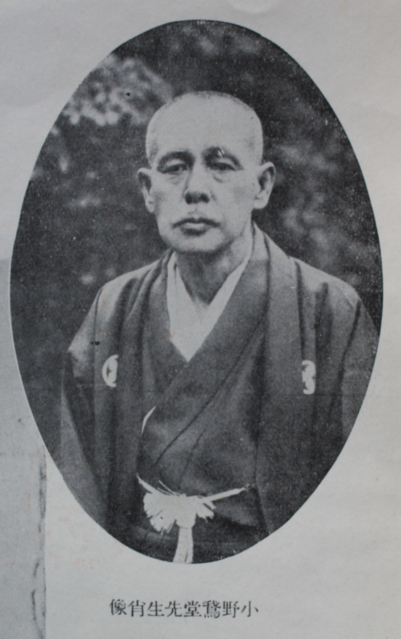 portrait of ONO GADOH (1862-1922) calligrapher